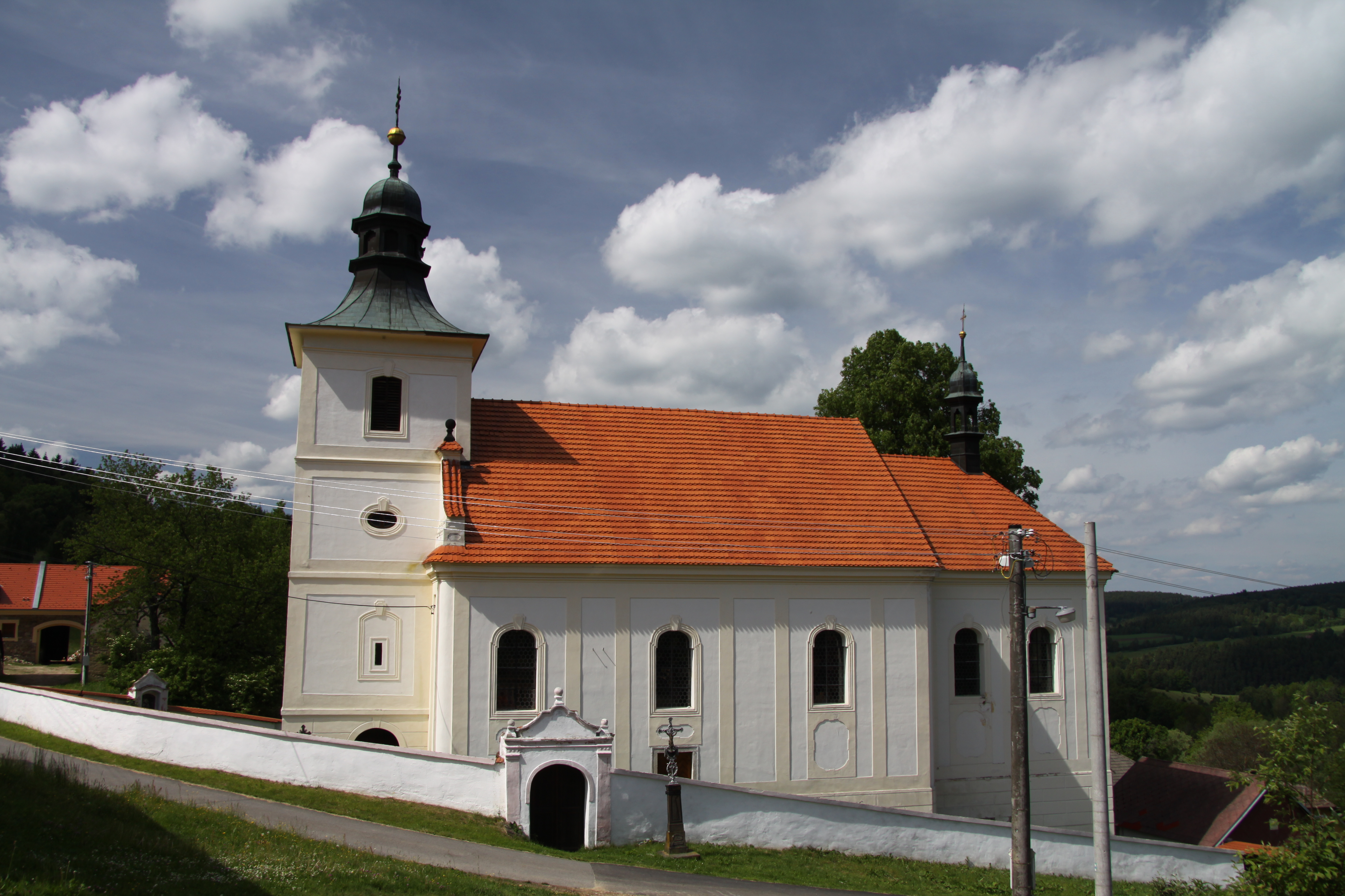 Church of Saints Philip and James in Frantoly village, part of Mičovice, Prachatice District, Czech Republic